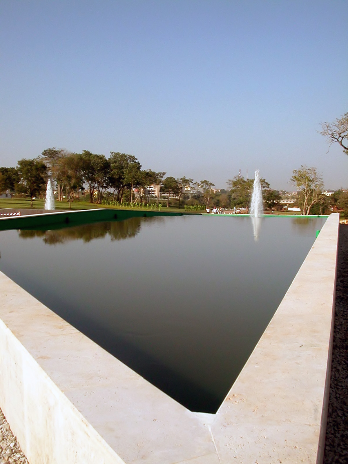 A Picture taken from Millennium Park Abuja ** Feel the Fountain**